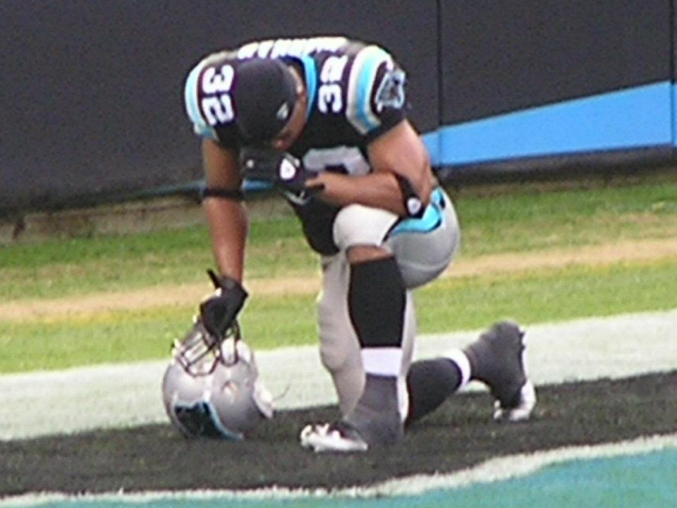 josh vaughn